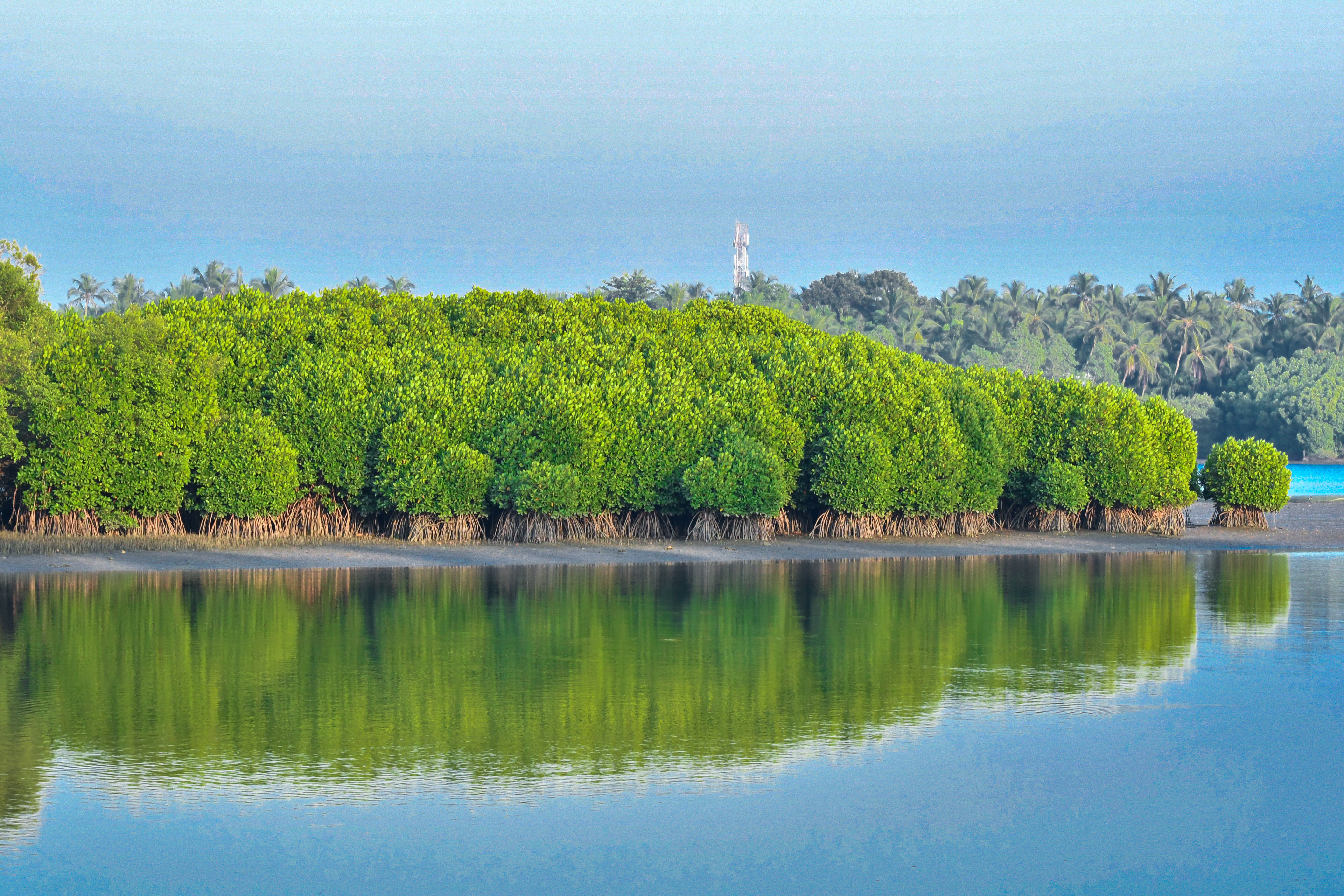 Mangrove forest in Kannur, Kerala